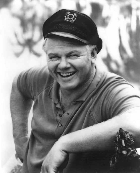 Photo of Alan Hale, Jr. as the Skipper from the television program Gilligan's Island.